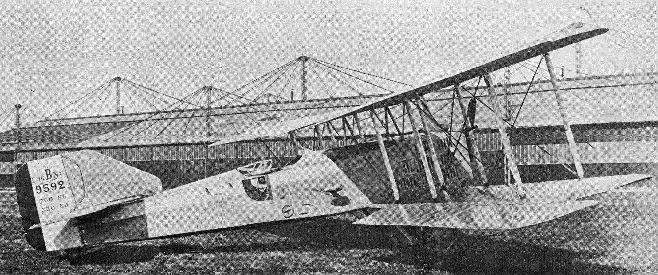 Breguet 16 Bn.2 photo from L'Aéronautique December,1922